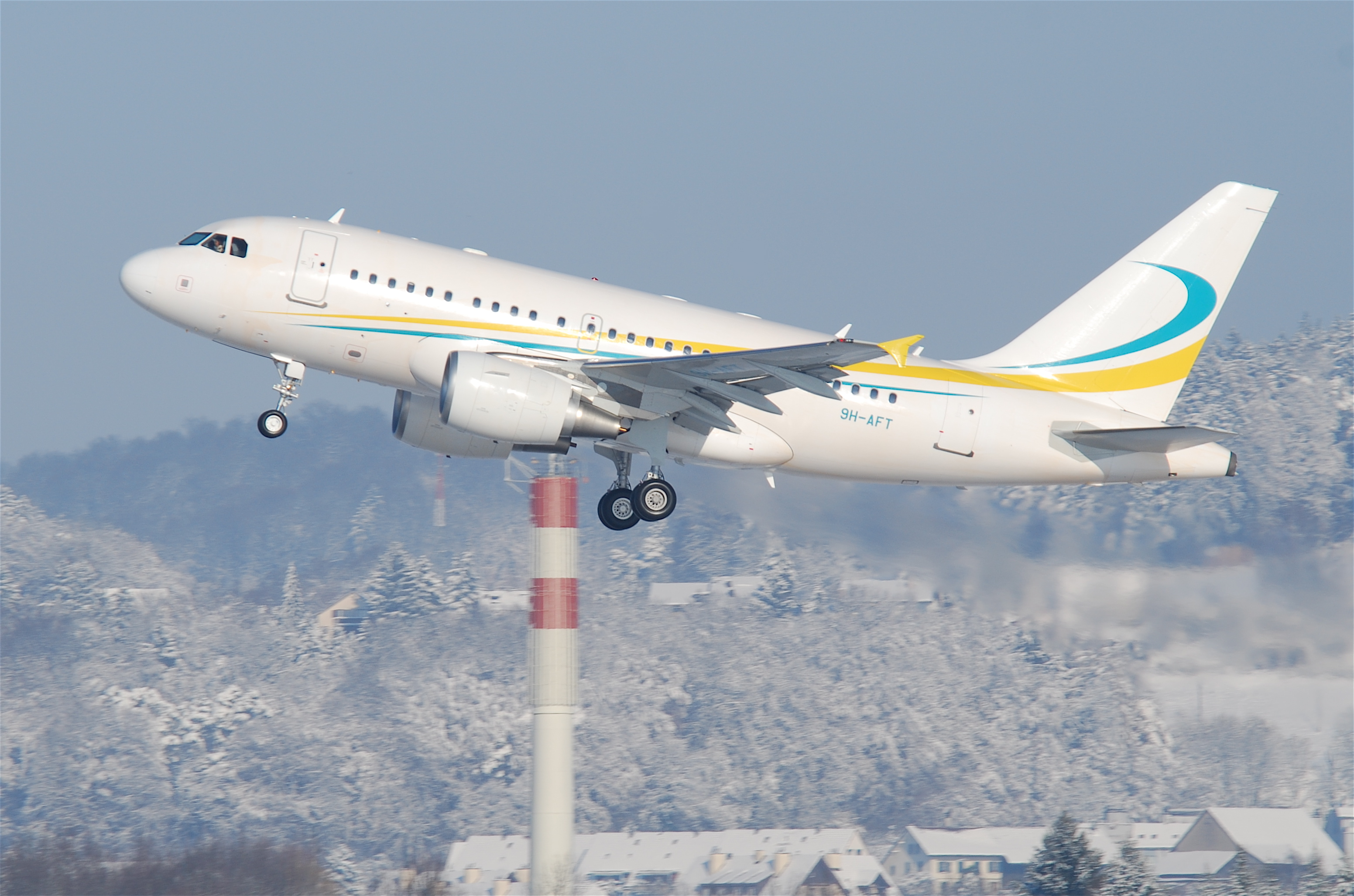 Comlux Aviation Airbus A318-112 (CJ) Elite; 9H-AFT@ZRH;26.12.2010/591cp